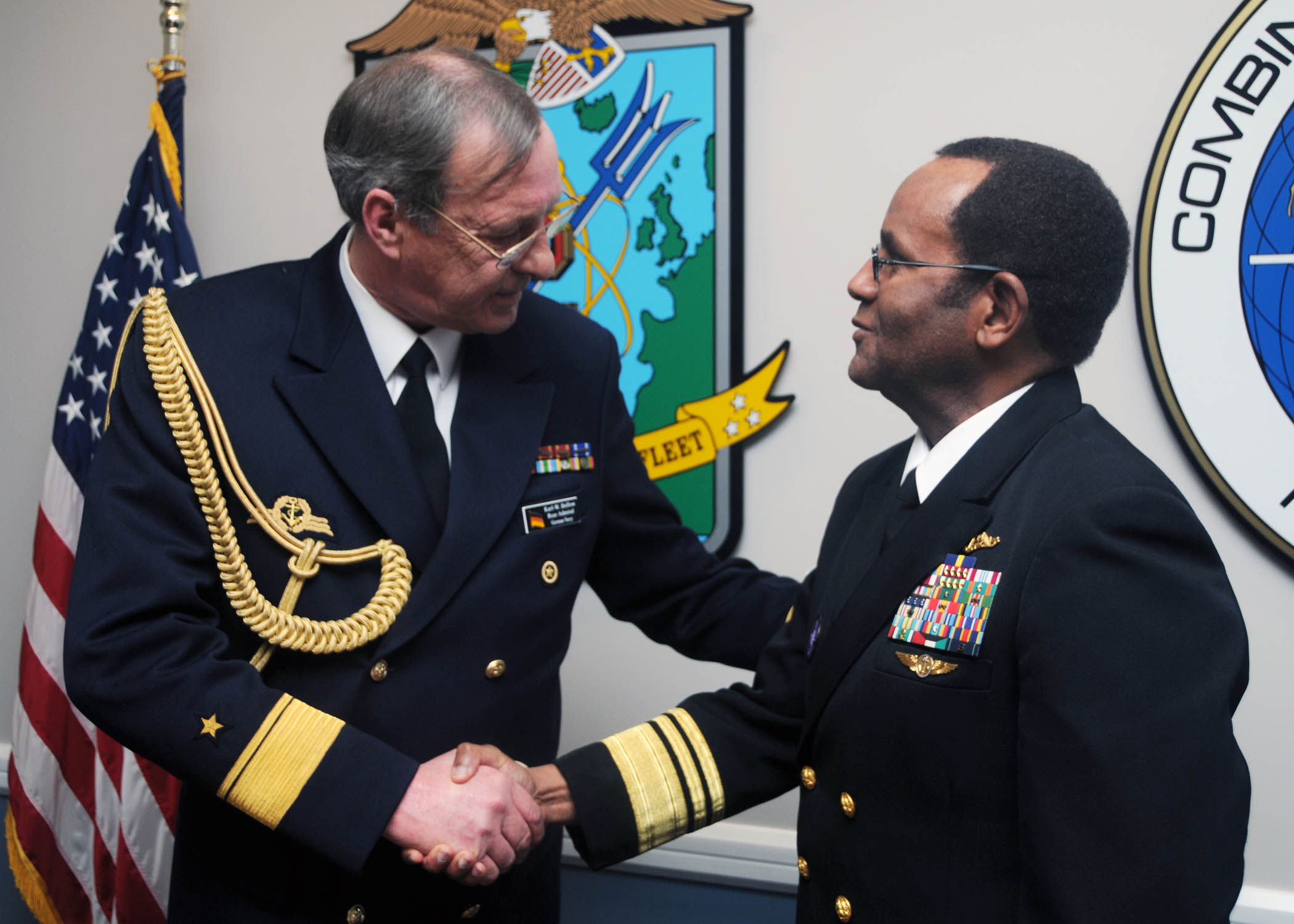 German navy Rear Adm. Karl-Wilhelm Bollow, left, German defense attache, and U.S. Navy Vice Adm. Mel Williams Jr., commander of U.S. 2nd Fleet, shake hands after signing a mutual declaration of intent regarding the German navy frigate FGS Hessen (F 221) March 2, 2010, in Norfolk, Va.. Hessen is preparing to get under way from Wilhelmshaven, Germany, en route to the U.S. to conduct port visits and become a part of the USS Harry S. Truman (CVN 75) Carrier Strike Group.